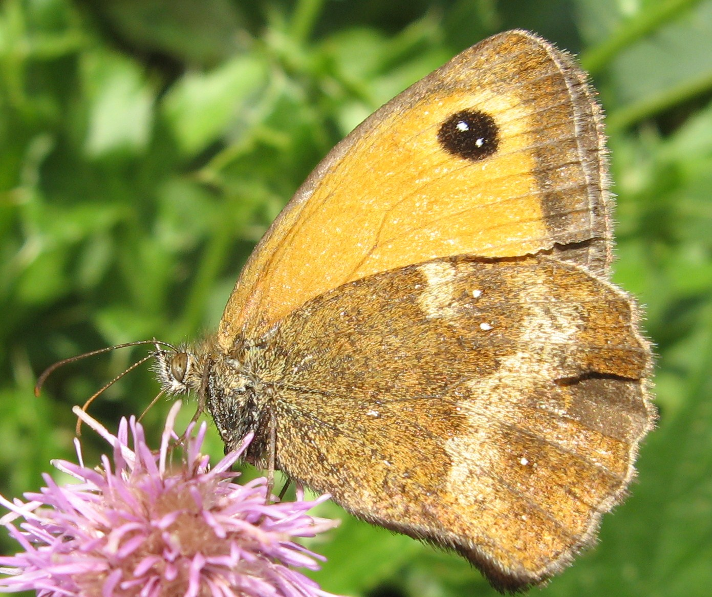 Gatekeeper butterfly. Pyronia tithonus, (Linnaeus, 1758), underside, tatton park, Cheshire,UK